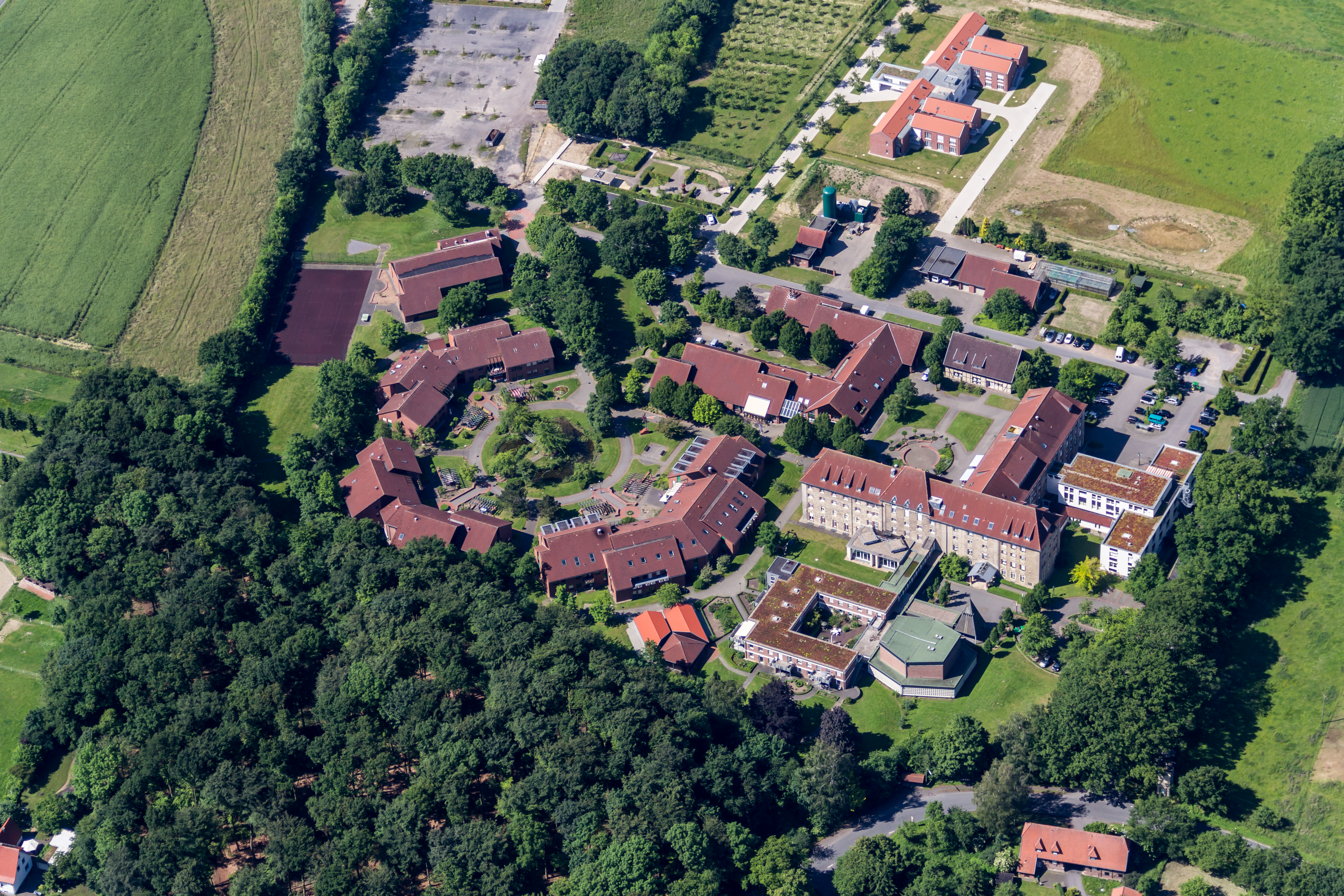 Anna-Katharinenstift in Weddern, Kirchspiel, Dülmen, North Rhine-Westphalia, Germany